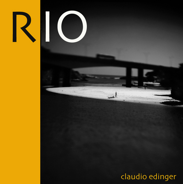 Livro Rio